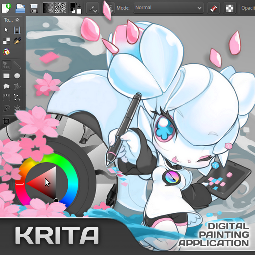 This is boxart of Krita on Steam as Feb 2014. The background shows Krita 2.8's default interface, with its signature right-click palette on the bottom left. The character is Kiki the Cyber Squirrel, Krita's mascot.中文（中国大陆）: 这是2014年2月份时Krita在Steam平台上使用的软件包装图。背景显示的是Krita 2.8的默认界面，左下角的是其标志性的右键工具盘。图中的角色是Krita的吉祥物，电子松鼠Kiki（琪琪）。